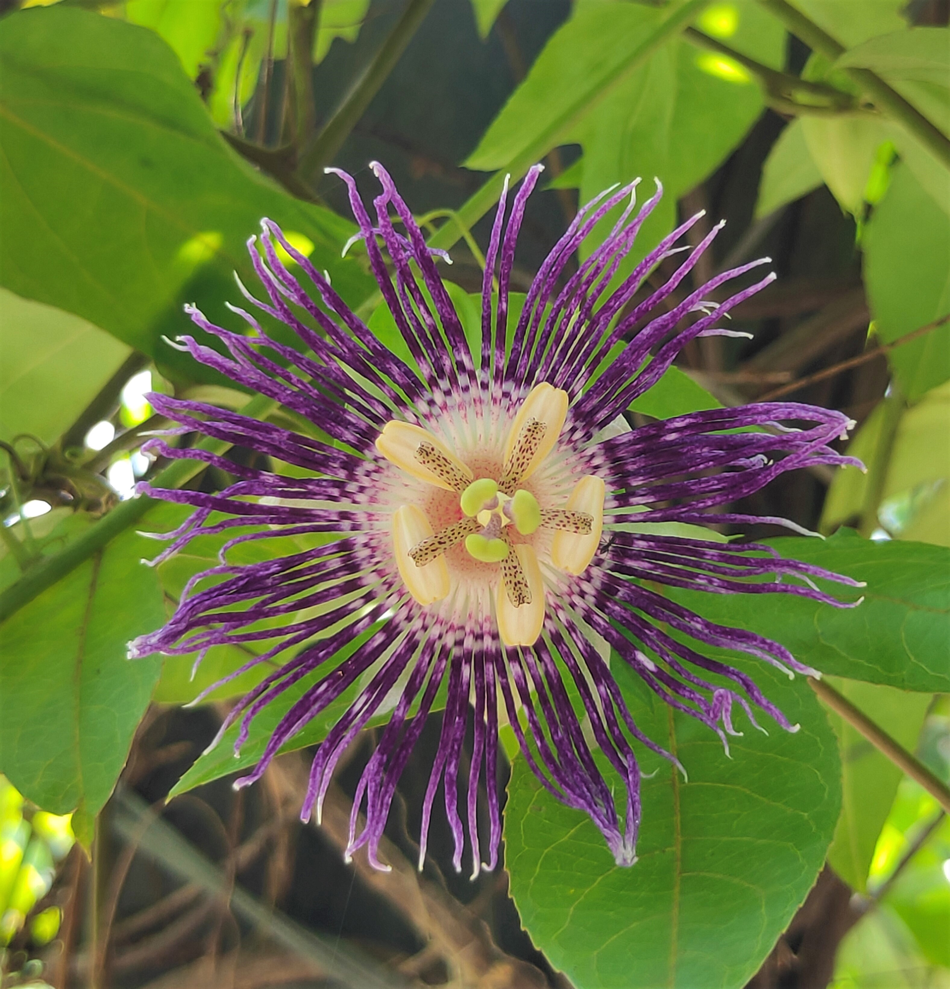 Passiflora Soi Fah flower